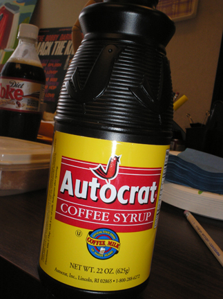 Bottle of Autocrat Coffee Syrup